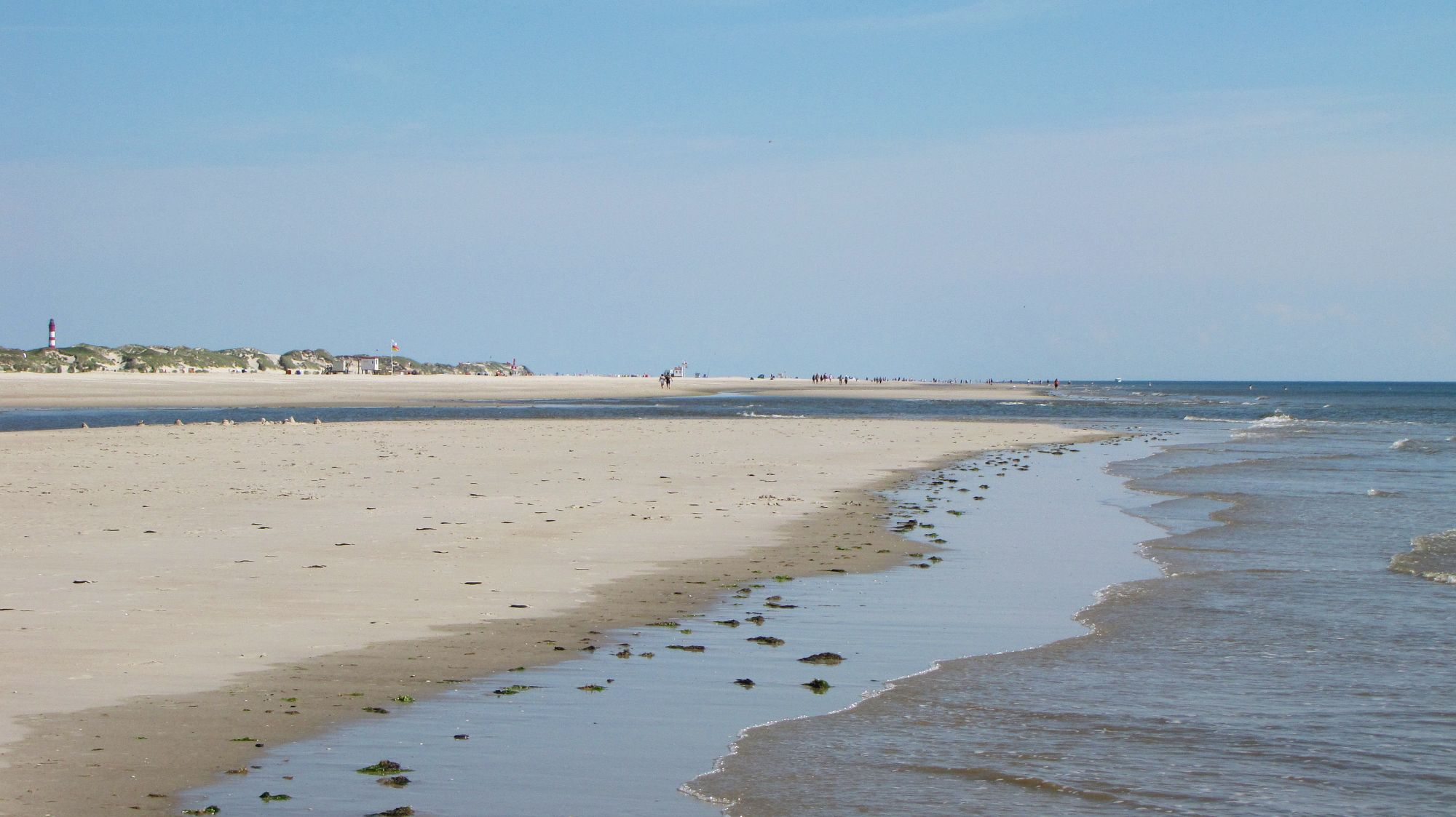 Germany / North Sea / Island Amrum: beach